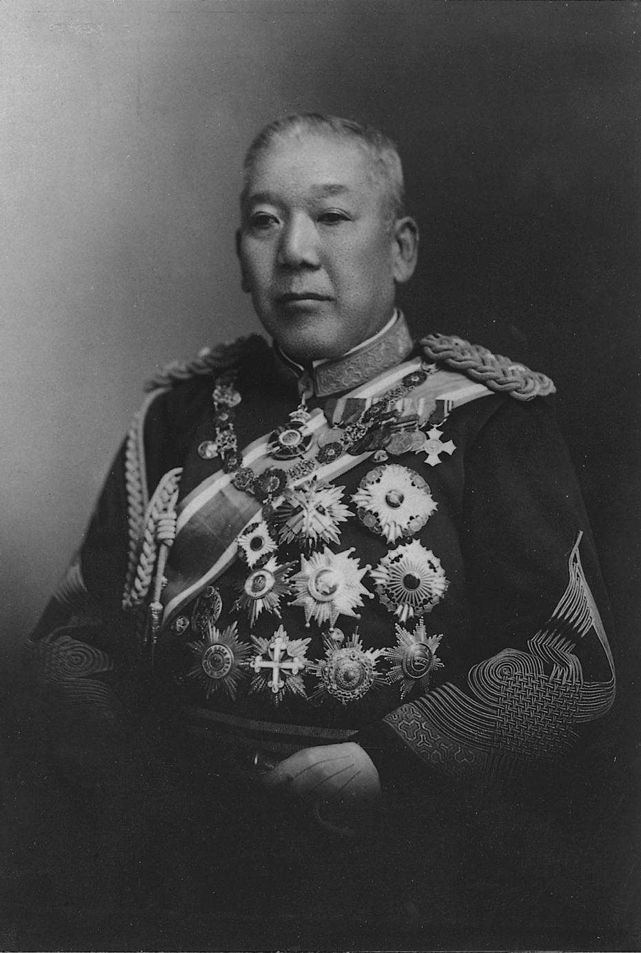 Portrait of Oyama Iwao (大山巌, 1842 – 1916)